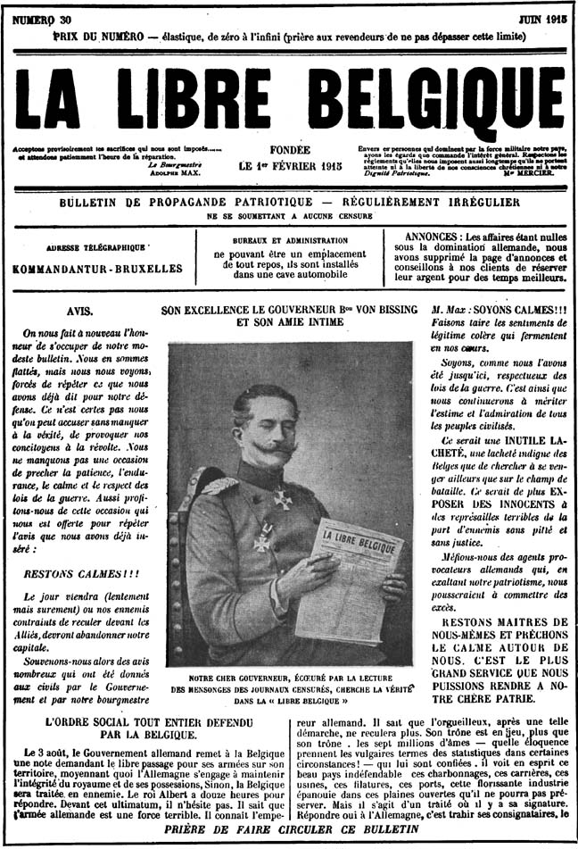 June 1915 edition of the underground newspaper La Libre Belgique. The illustration satirically depicts the German Governor General, Von Bissing, holding a copy of the newspaper.